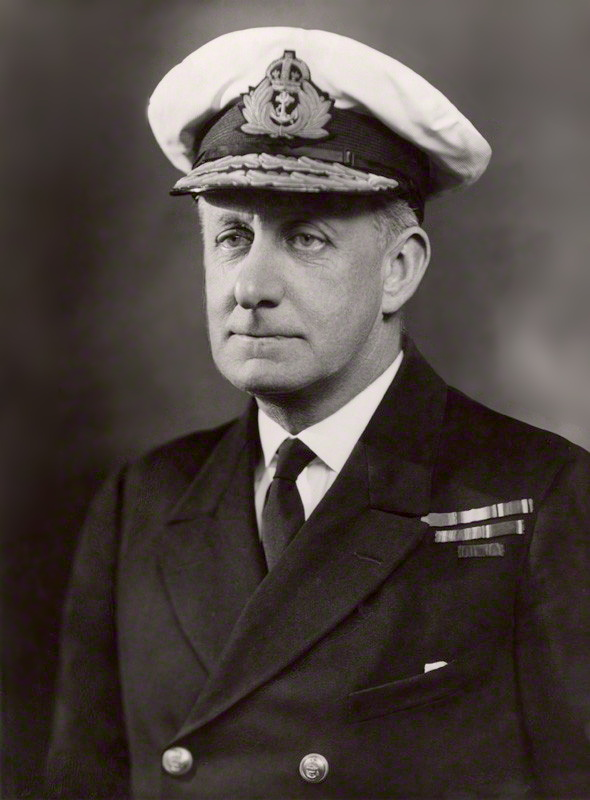 Portrait of Admiral Sir Geoffrey Schomberg Arbuthnot